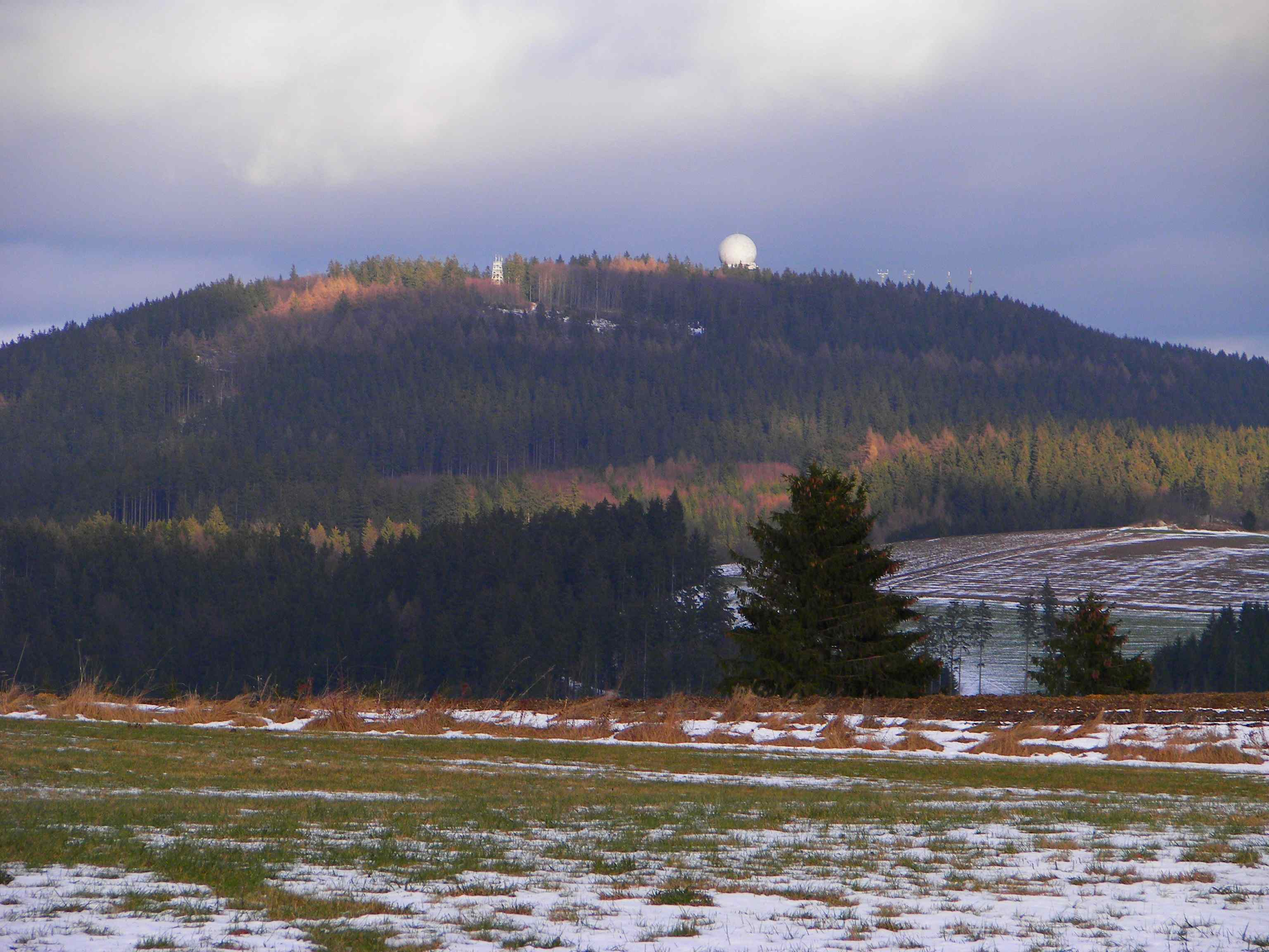 Radar tower of the Remote Technical Platoon 132 on the hill Doebraberg (Tactical Air Command and Control Service of the German Air Force). The Radome accommodates a RRP 117 sensor.